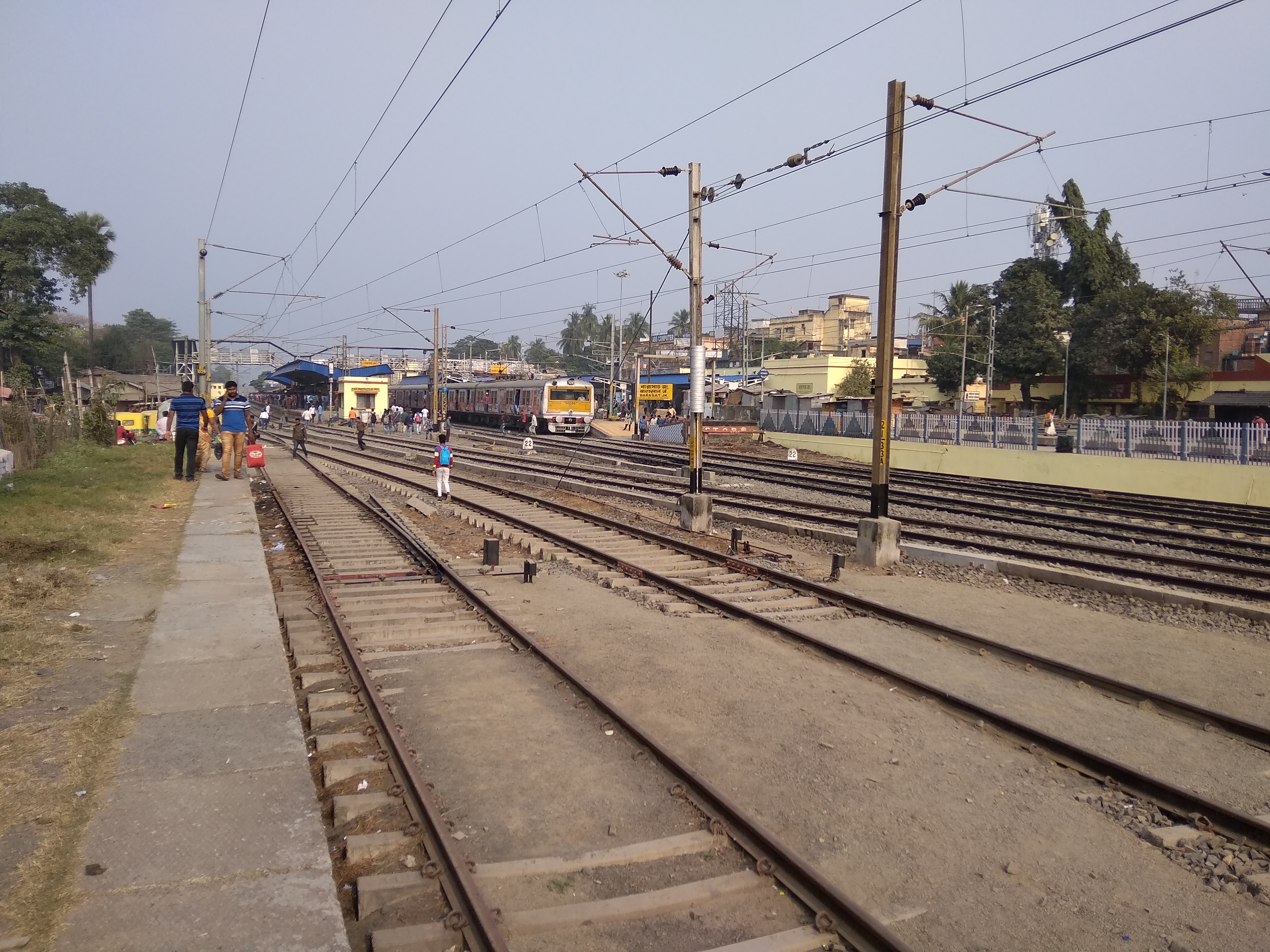 Barasat Junction railway station - platform No. 3, 4 and 5.